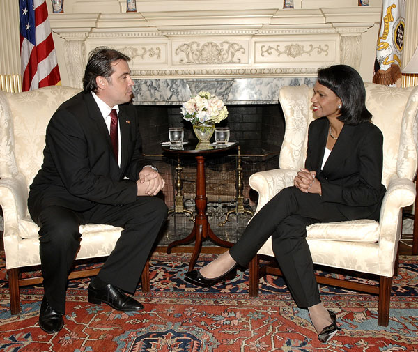 Secretary Condoleezza Rice meets with His Excellency Adrian Cioroianu, Minister of Foreign Affairs of Romania, Washington, D.C., June 13, 2007.